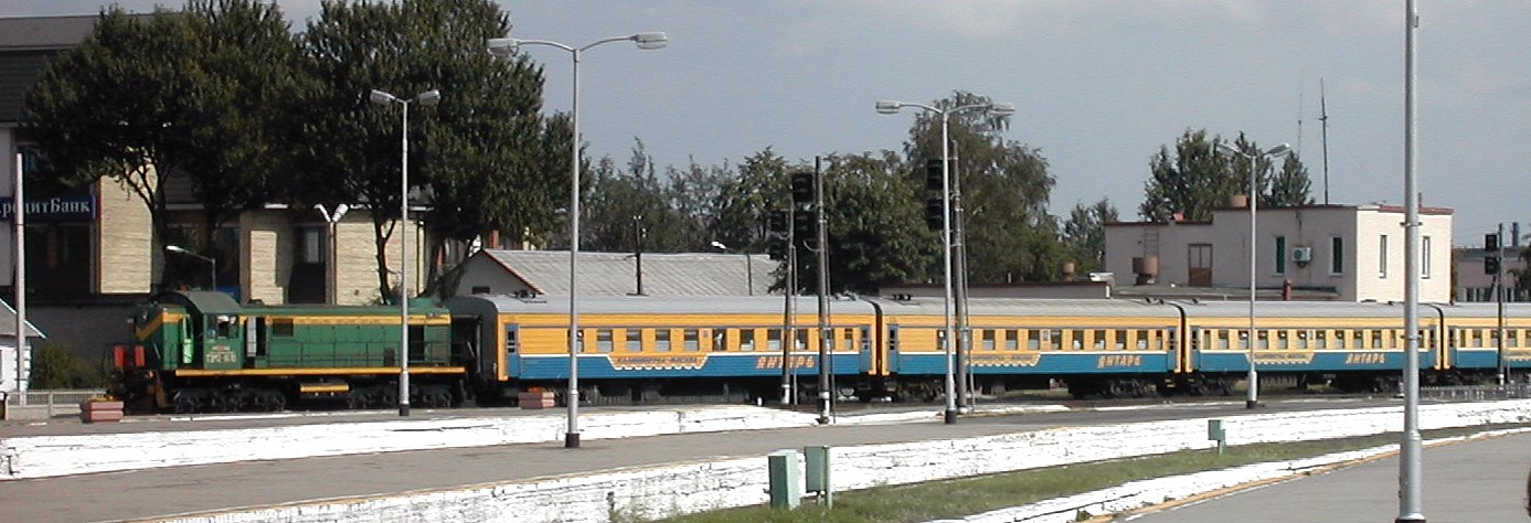 "Yantar" train (Kaliningrad-Moscow) cars being shunt at the Kalingrad Passazhirskyi main railway station.